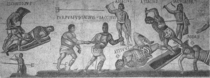 Scene from the Gladiator Mosaic for the Villa Borghese